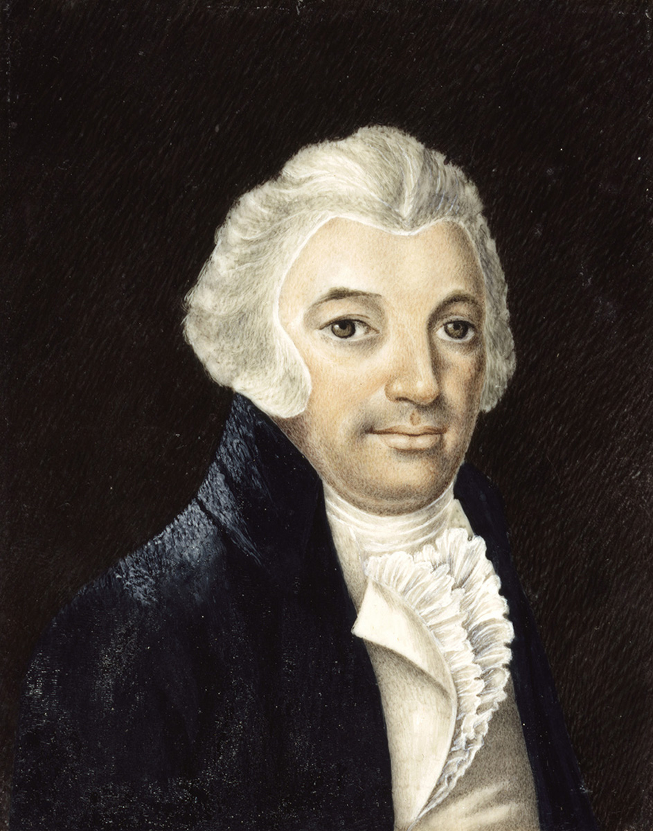 Portrait of Judge Gabriel-Elzéar Taschereau (1745-1809)